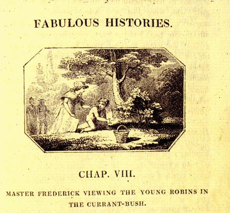 This is the lede image of the 8th chapter of Trimmer's book, Fabulous Histories.